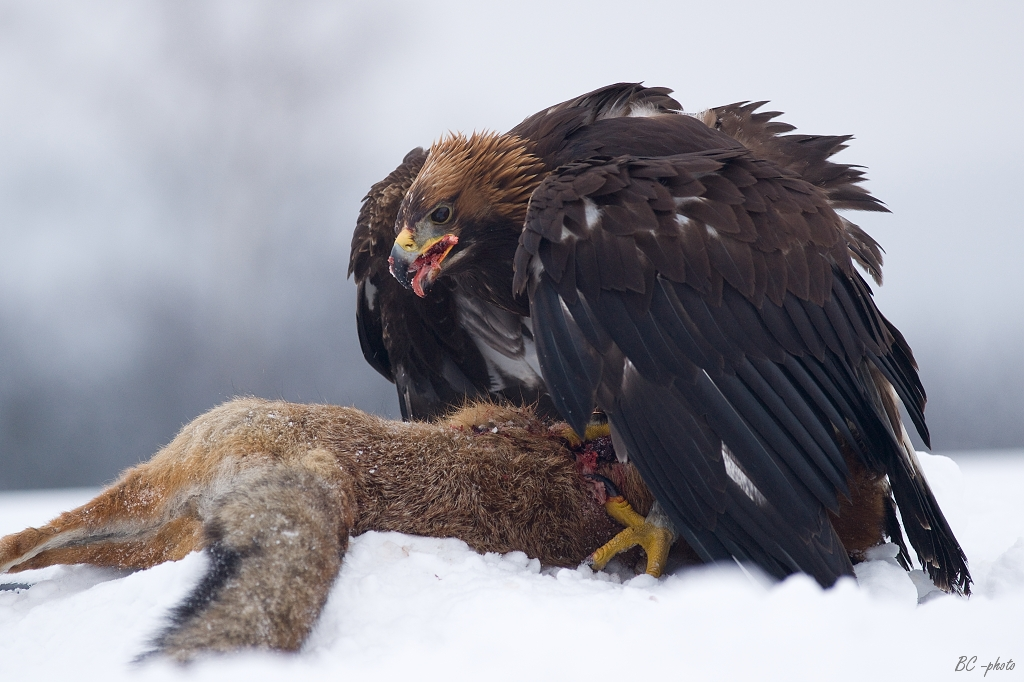 Aquila chrysaetos, Navasrky, Czech Republic